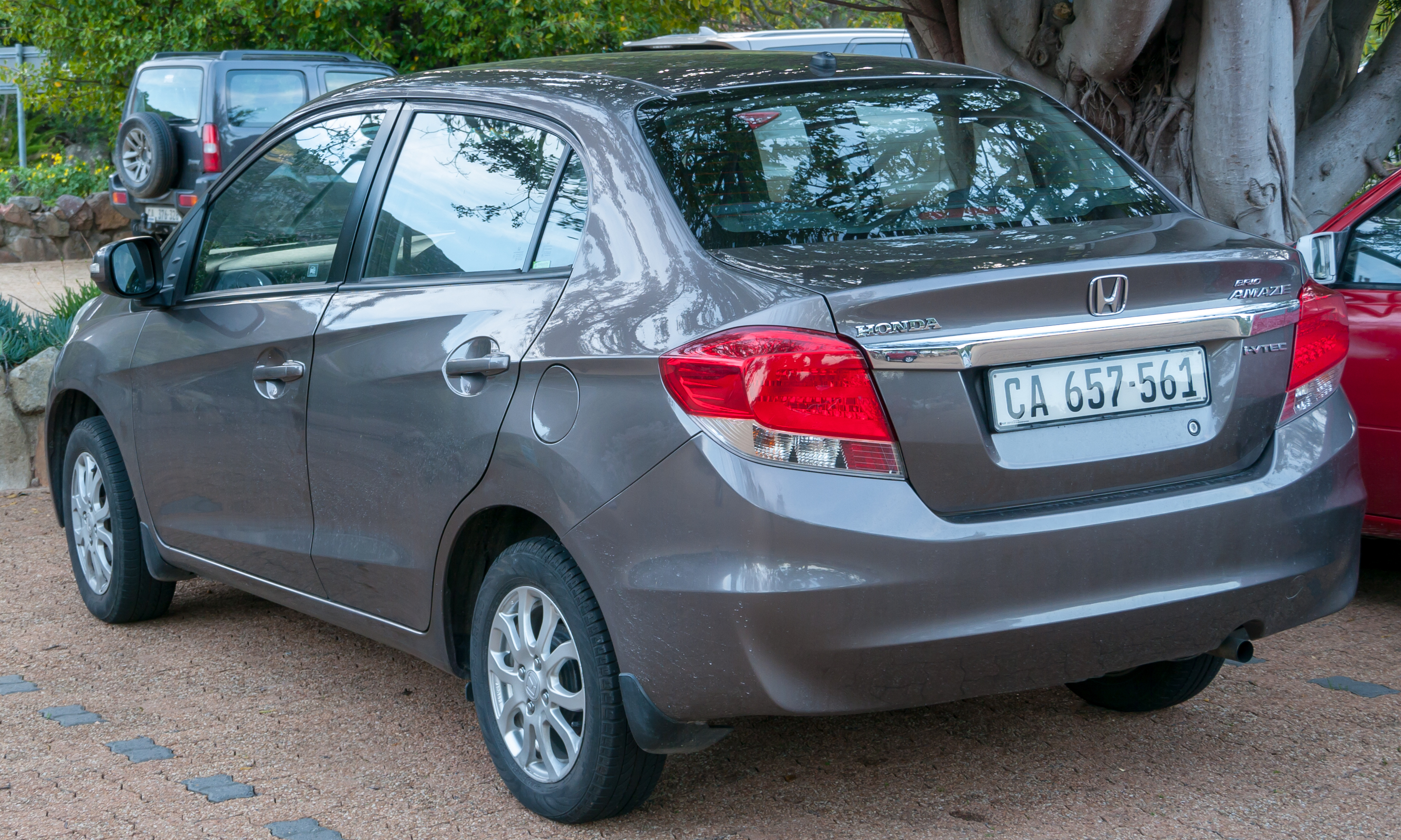 Honda Brio Amaze, Cape Town